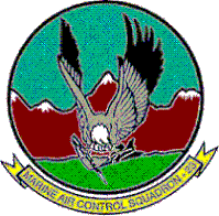 Contribs) . . 199x196 (17,261 bytes)